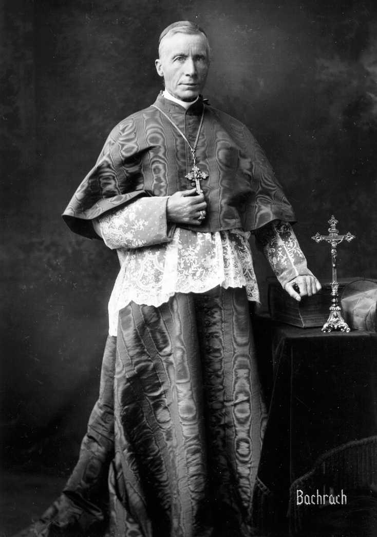 Photograph of James Cardinal Gibbons (1834-1921), former Archbishop of Baltimore.